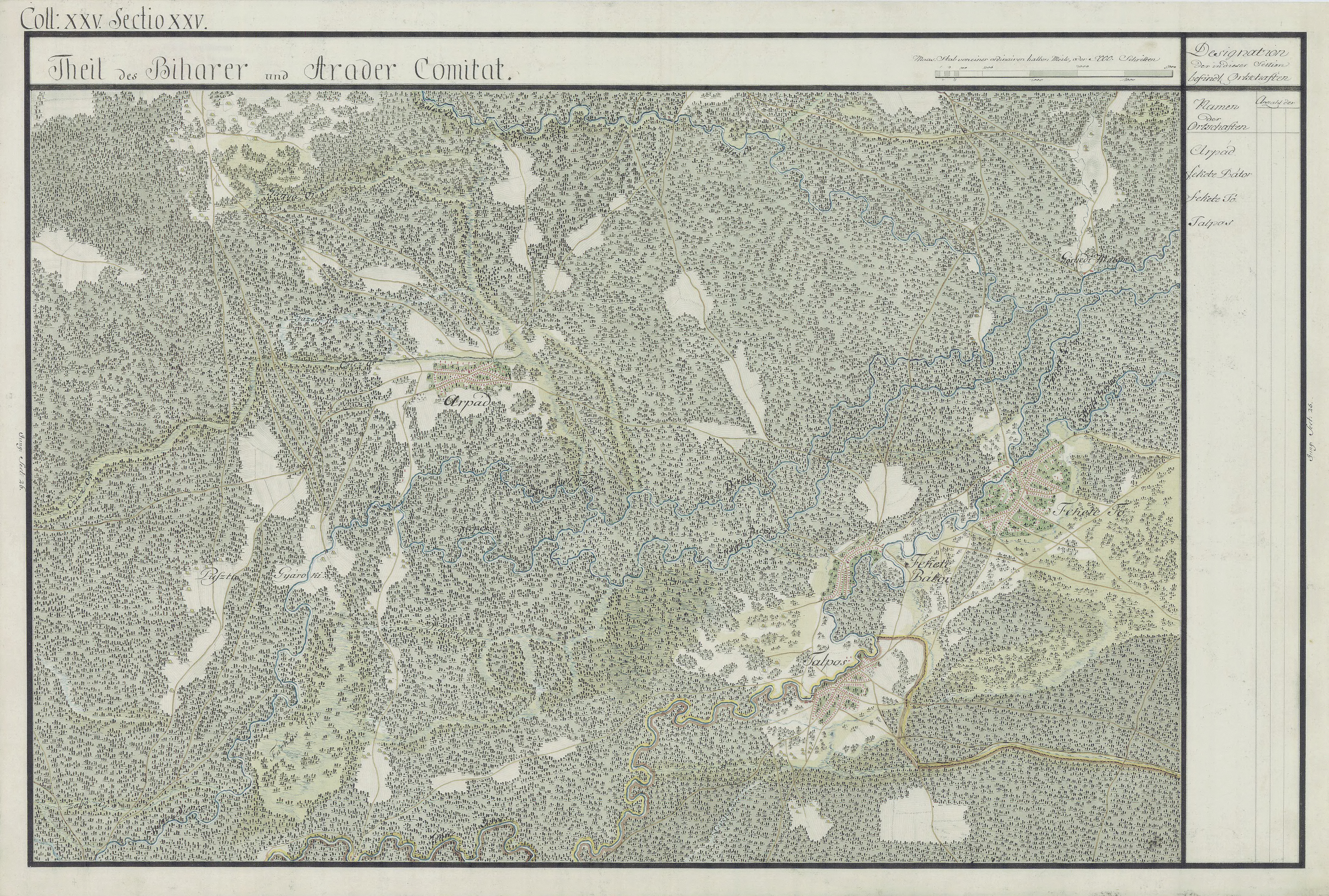 Kingdom of Hungary, 1782-85. Josephinische Landesaufnahme pg.25-25. Counties shown on the map: 1. Bihar County 2. Arad County